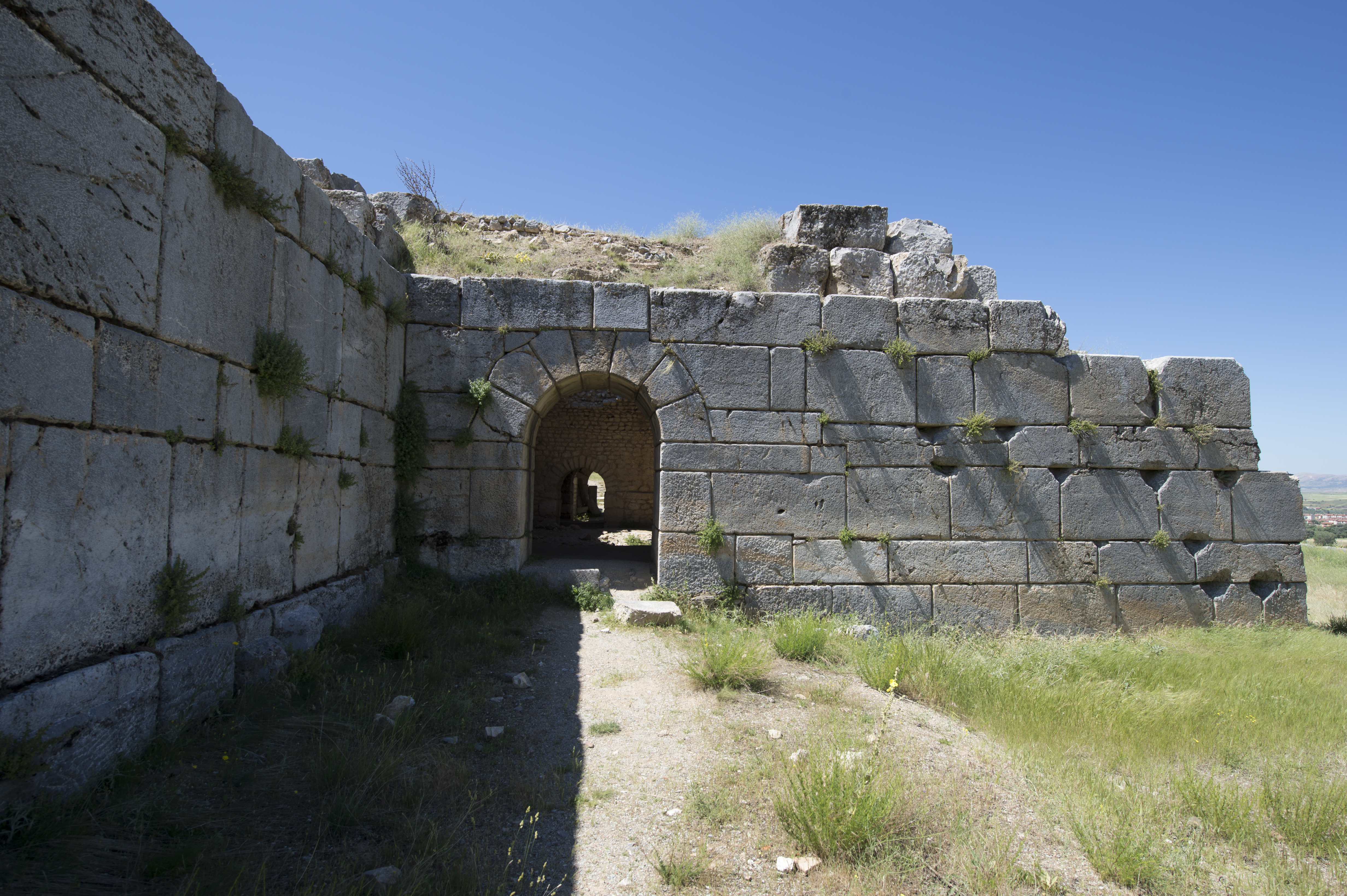 Roman Bath. This building, which is located at the northwest corner of the city, drawsattention with its large blocks and intact structure. The building, of which seven spaces have been excavated, measures 80 x 55. It is controversial whether is is a bath or not. Considering the sun and wind factors, the entrances and hearths of all baths are in the south and east directions; however, the situation is different. There are not many traces of water supply and heating systems [either – D.O.]. As in the Pergamon Trajan Temple, the building reveals itself as a structure carrying a large building with its vaults on a plain area obtained from the slope of the land. The building is dated to the 1st century AD. I understand the message here is: this is not a Roman Bath, but a substructure of a building that either disappeared or never was actually built.